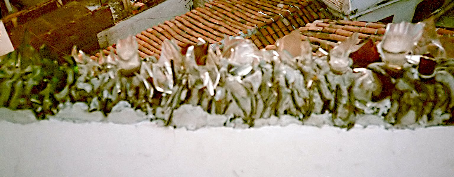 This photo is from August 2001, of a glass-topped wall atop the Hotel Santa Prisca in Taxco, Guerrero, Mexico. Rooftops show in the background.